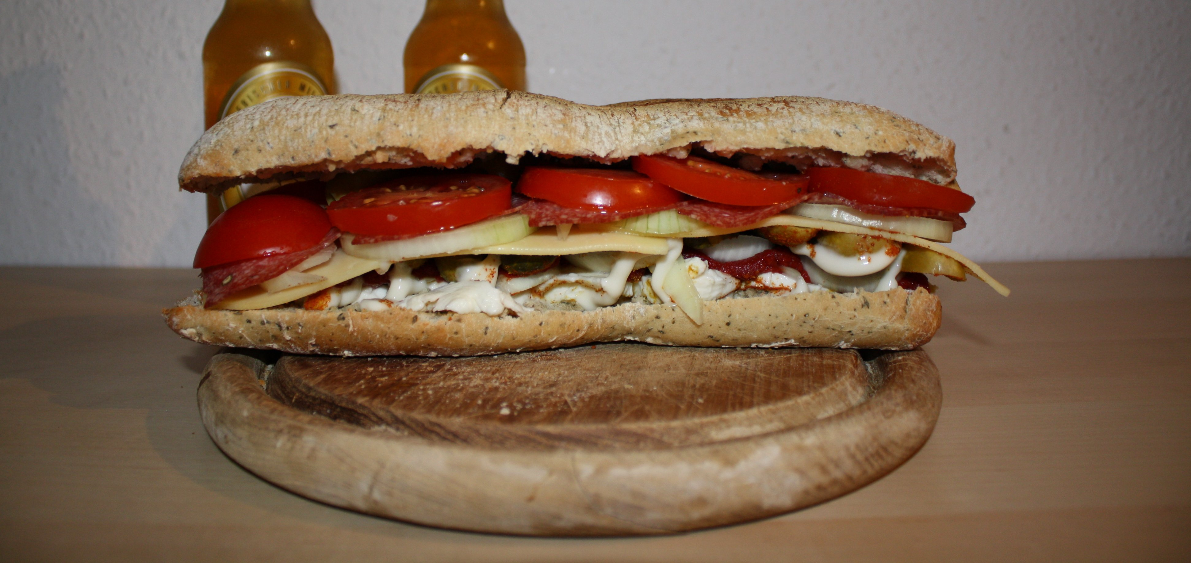 Submarine sandwich